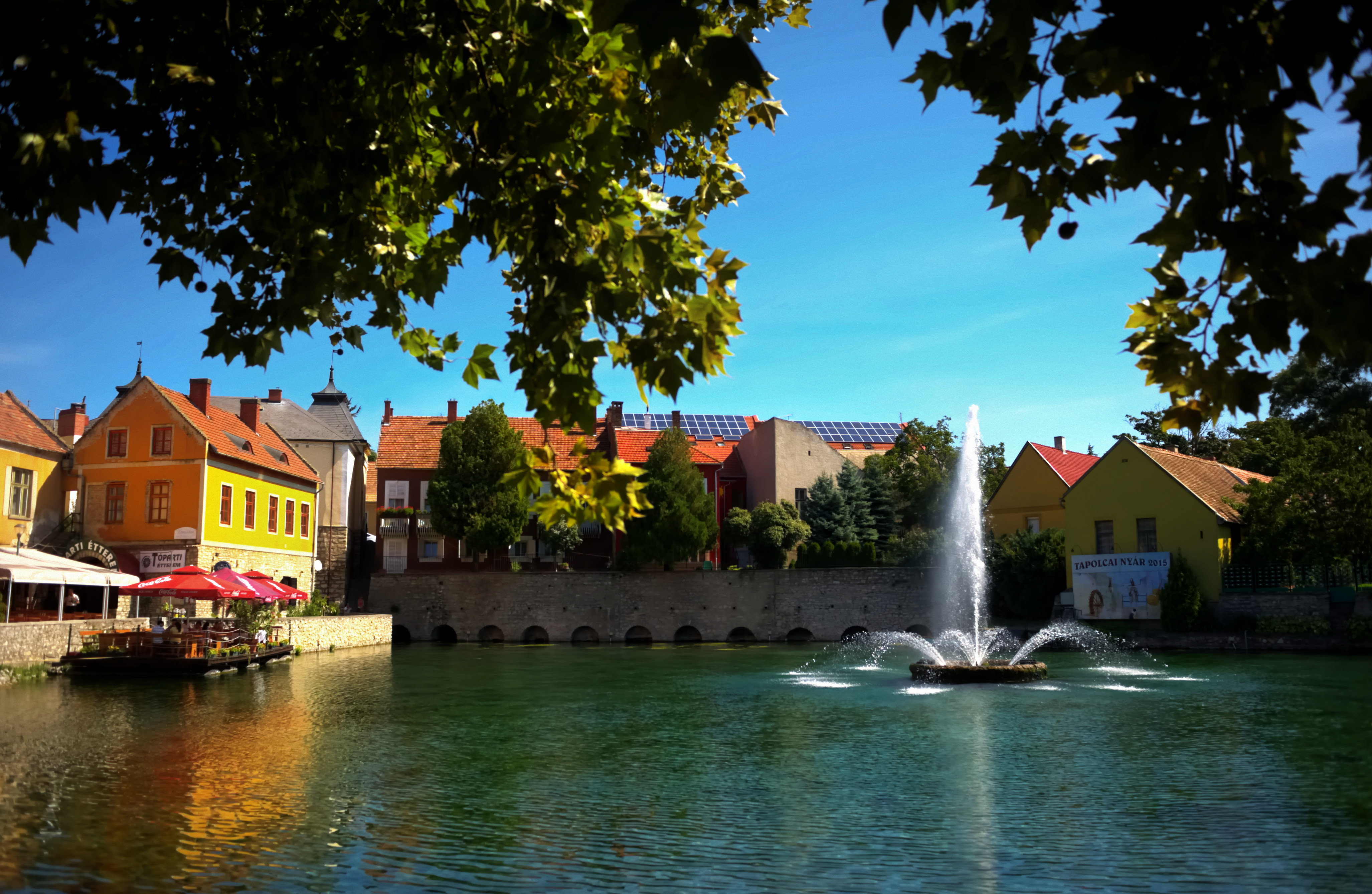 Tapolca City. Listed Lake District Area, listed support wall, listed facade, fountain